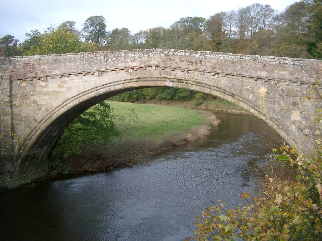 Twizel Bridge. According to the OS map this is a reconstructed bridge - it's certainly in very good condition. No vehicular traffic any more which can't hurt. Bridge is over the River Till